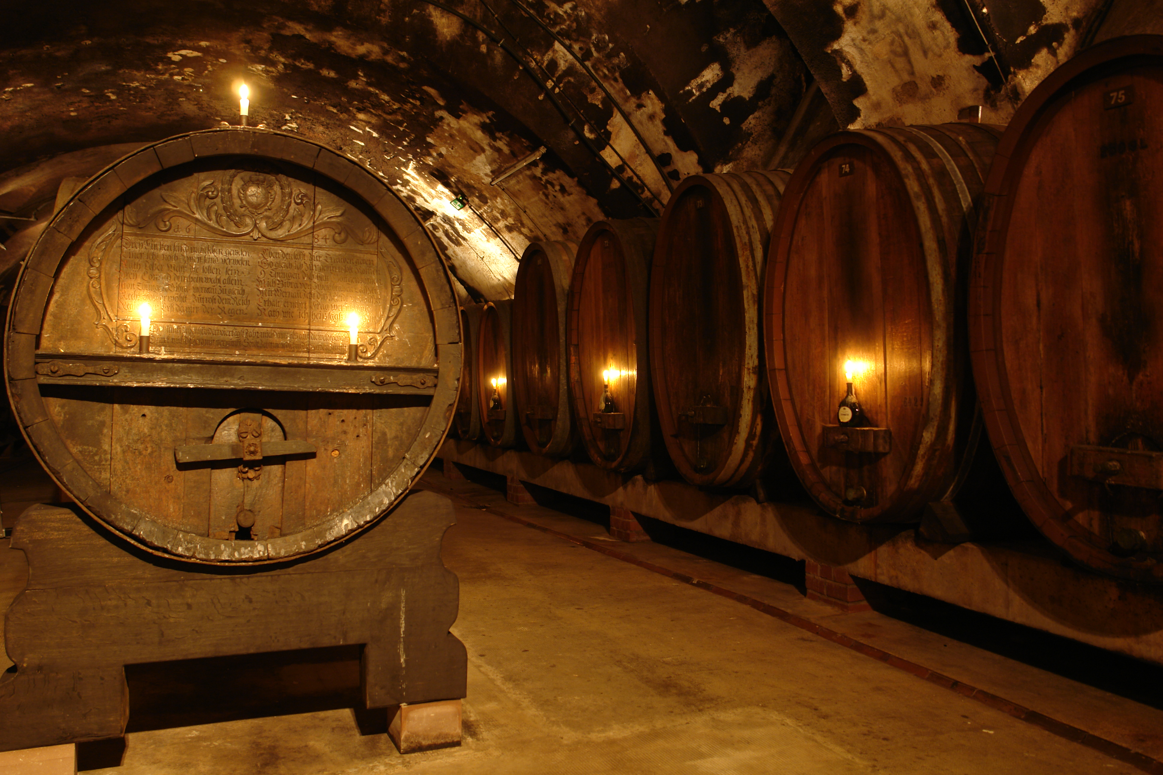 Wine cellar of the Würzburg Residence